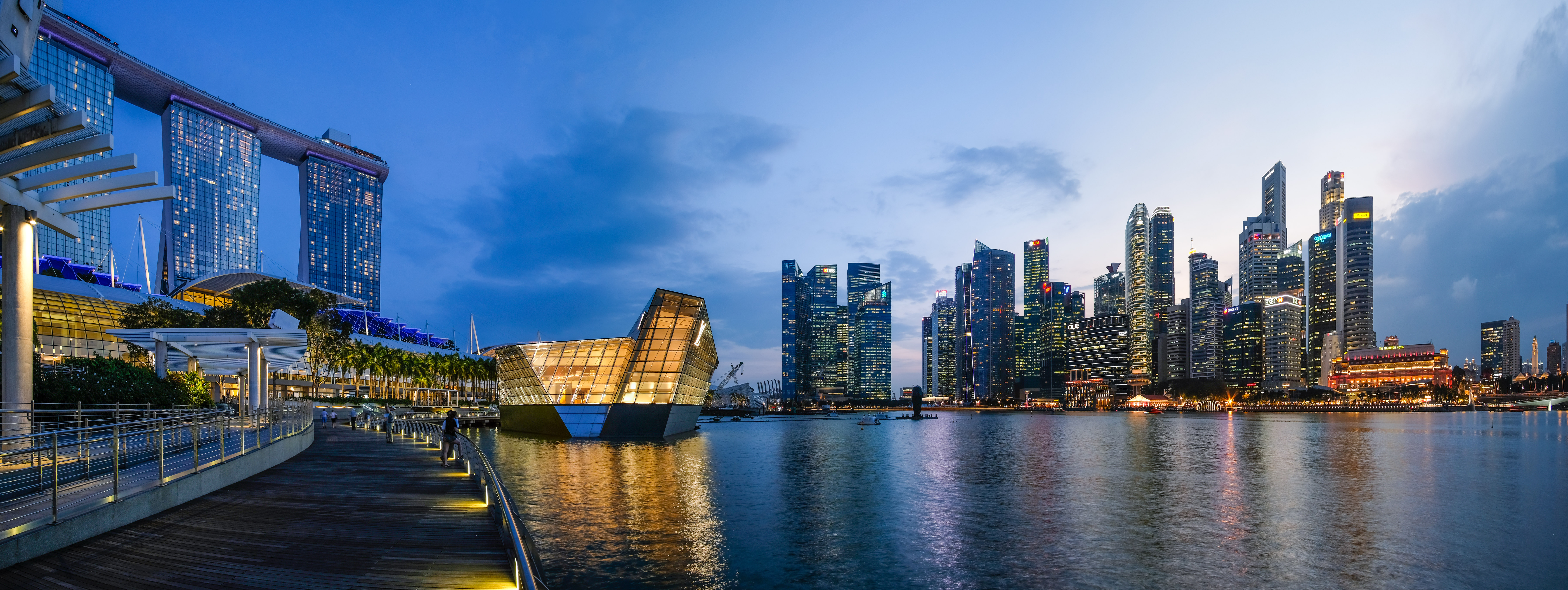 Singapore's Marina Bay at Dusk in 2018. From left to right, Marina Bay Sands (MBS), Louis Vuitton store and the CBD.